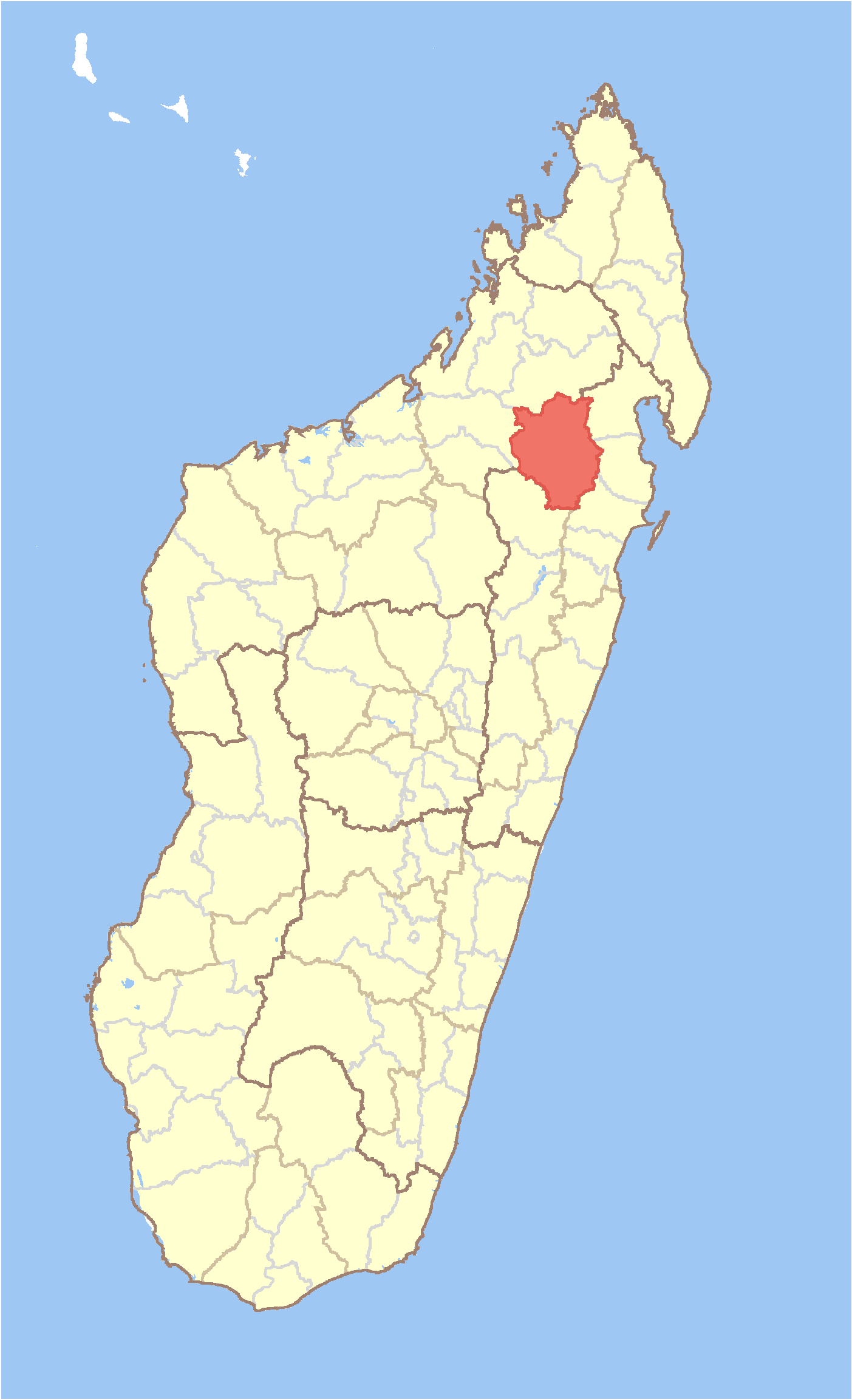 Map of Madagascar with Mandritsara District highlighted